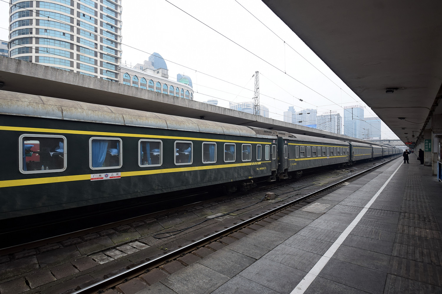 K813 25G train was stopping at platform 5 of Zhuzhou Railway Station.